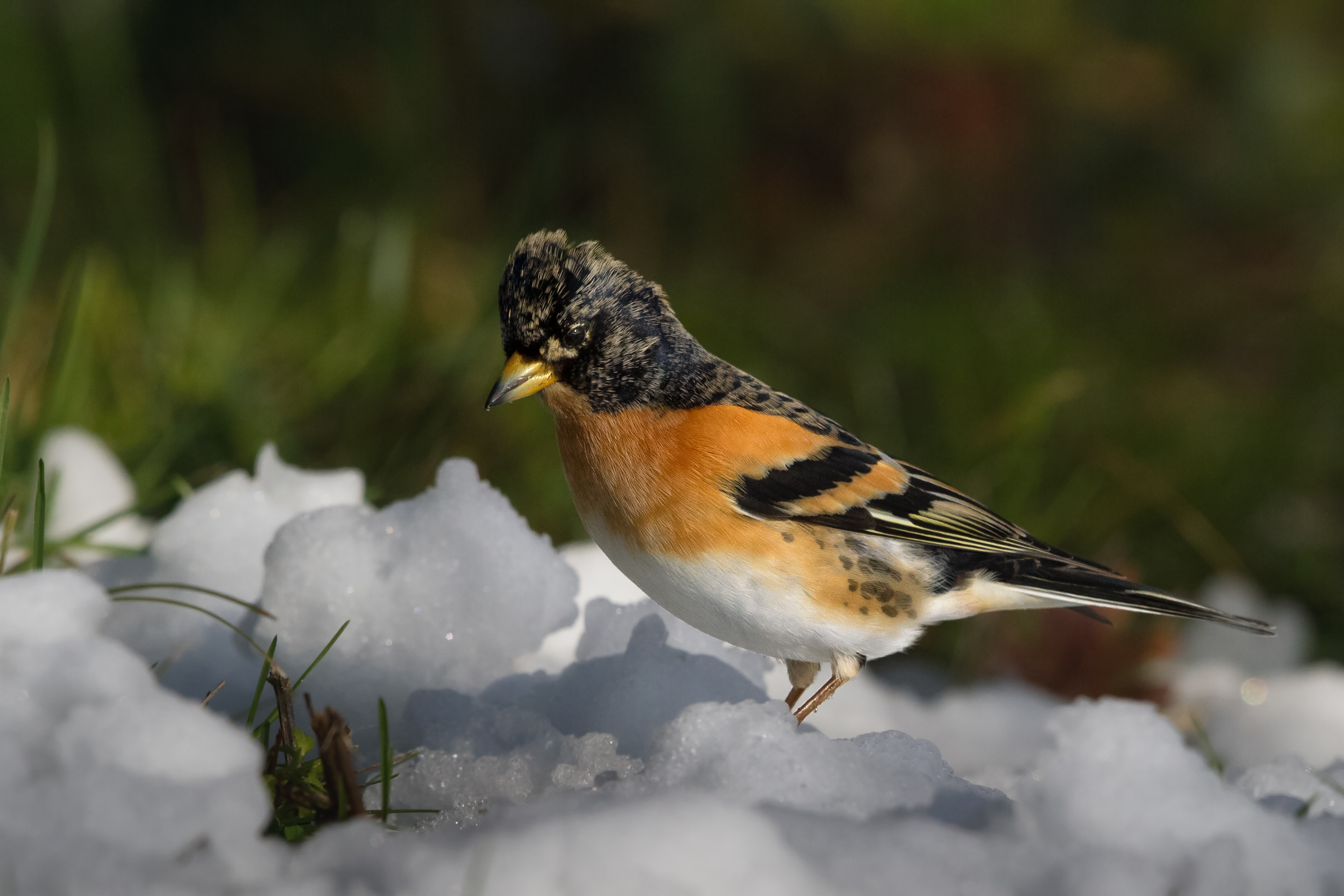 Brambling .male